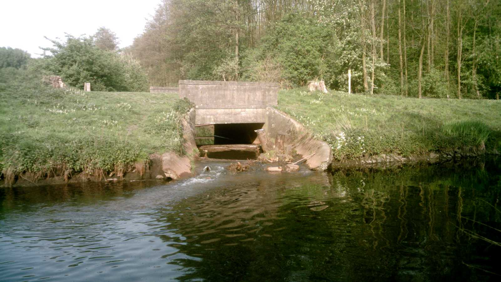 Mouth of Cloer river into the Niers near Neersen, Willich, Germany